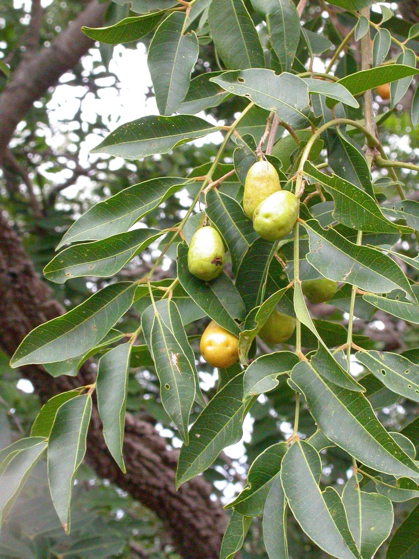 Spondias mombin, fruiting. Foto taken near Fô, Burkina Faso.